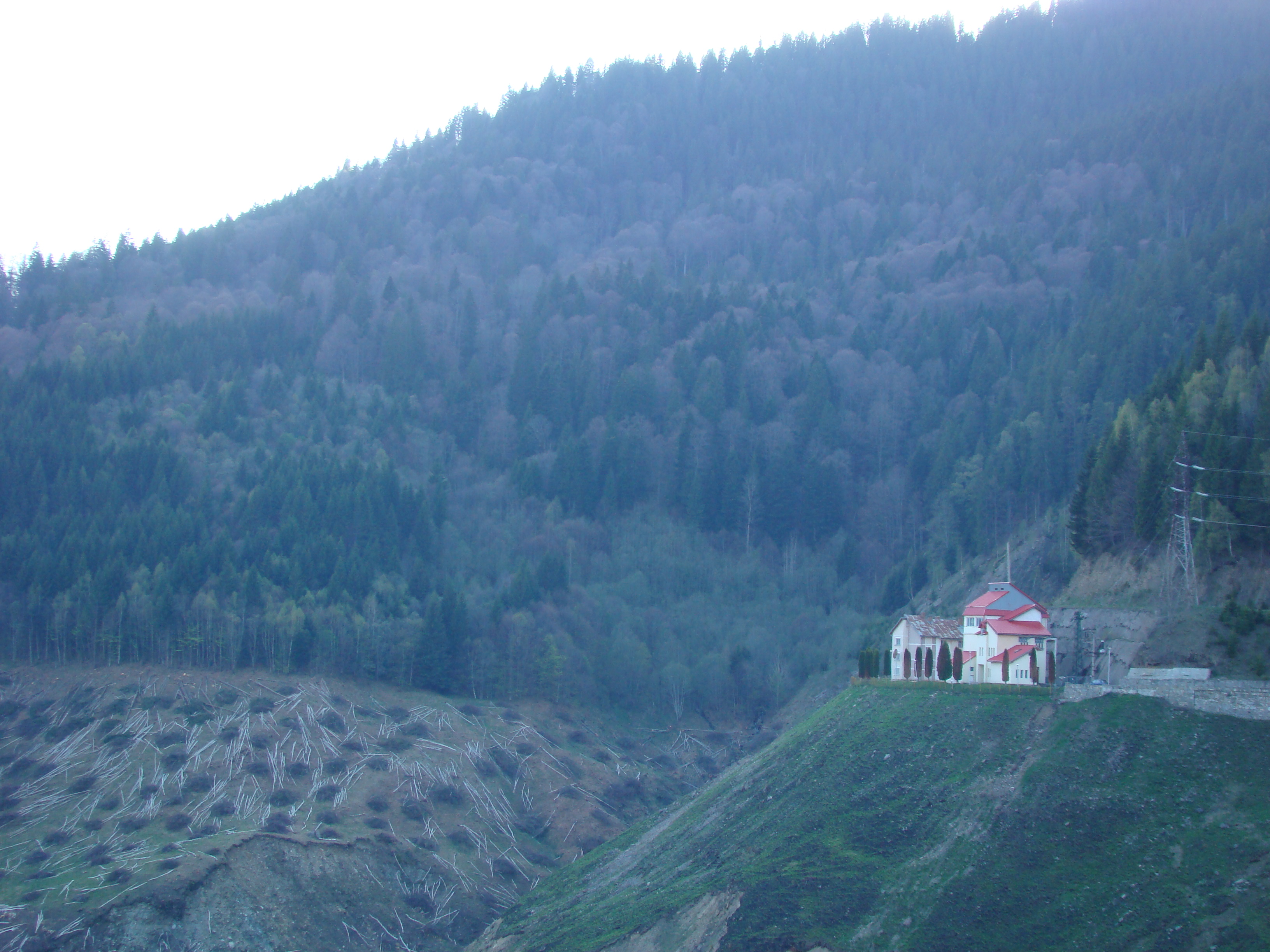 Gura Apelor dam and reservoir, Hunedoara counrty, Romania